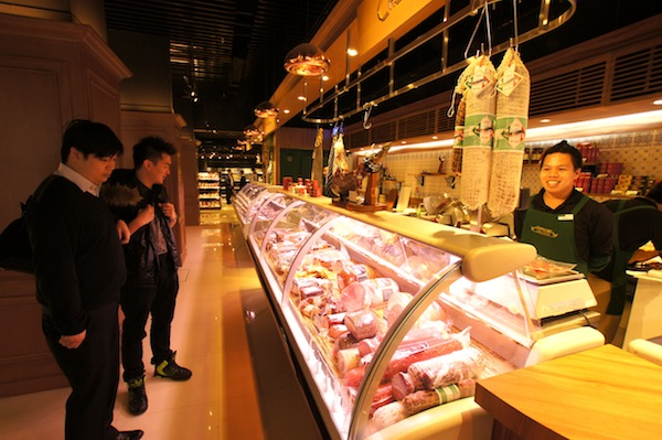 The inside decoration of SUPREME Food Market (Treasure Garden Branch) in Macau.